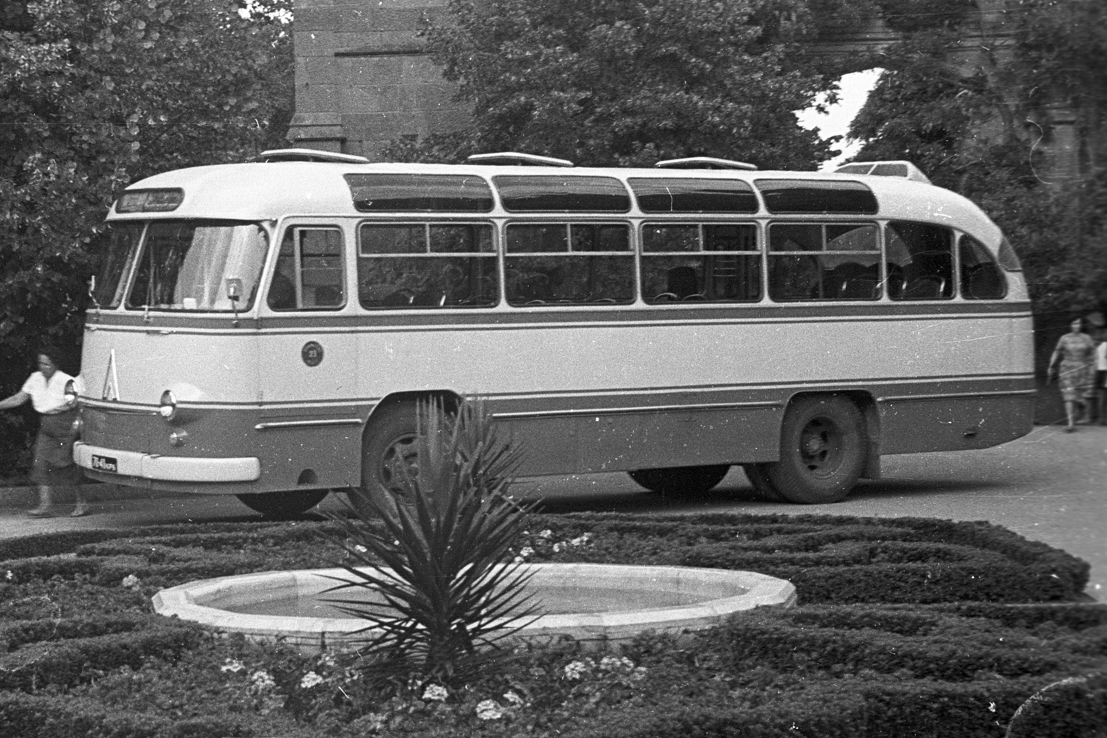 a LAZ-695B in 1963